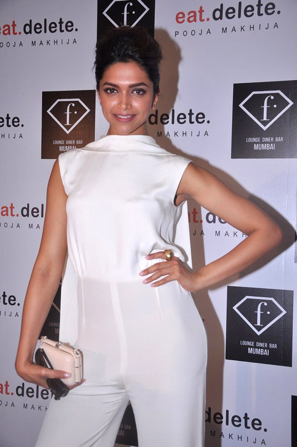 Deepika Padukone graces Pooja Makhija's eat.delete brunch